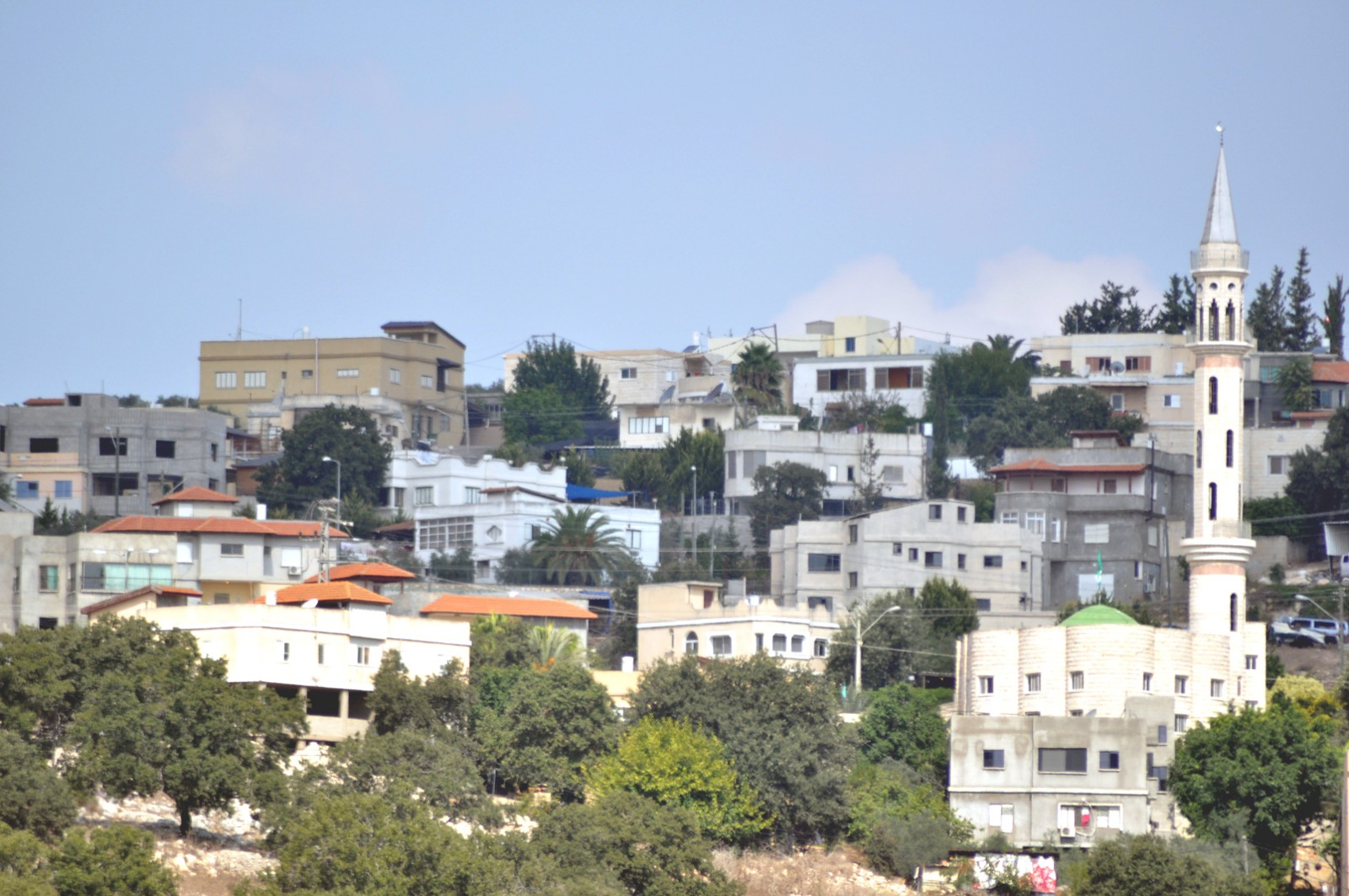 Geography of Israel